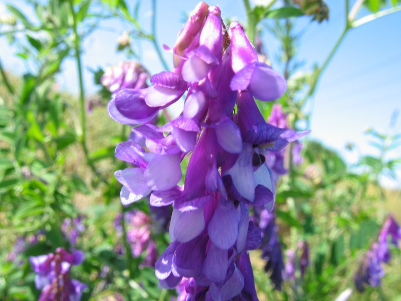 Vicia villosaLocation: Warnow-Wiesen